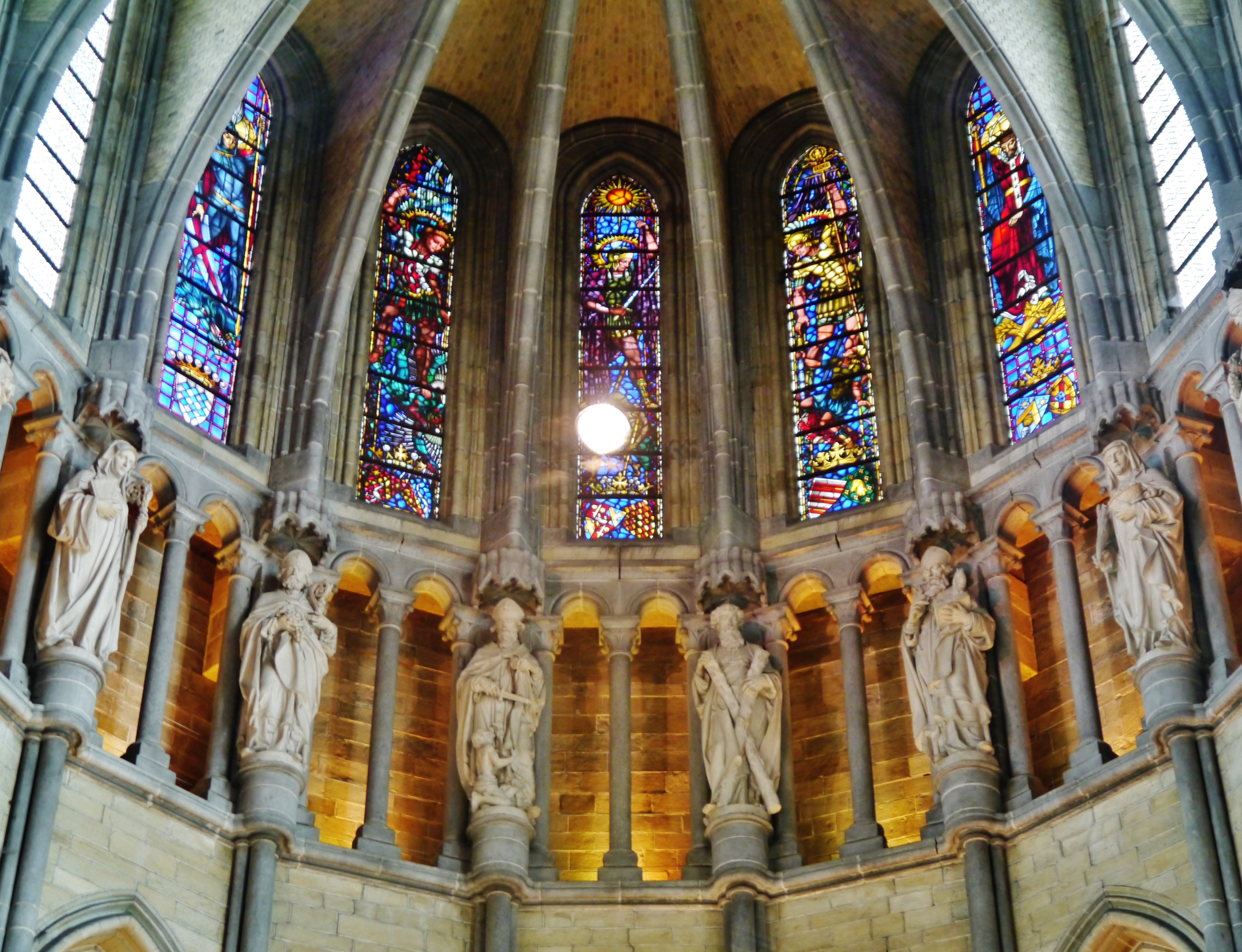 Choir of the Cathedral St. Maarten, Ypres, Province of West Flanders, Flanders, Belgium